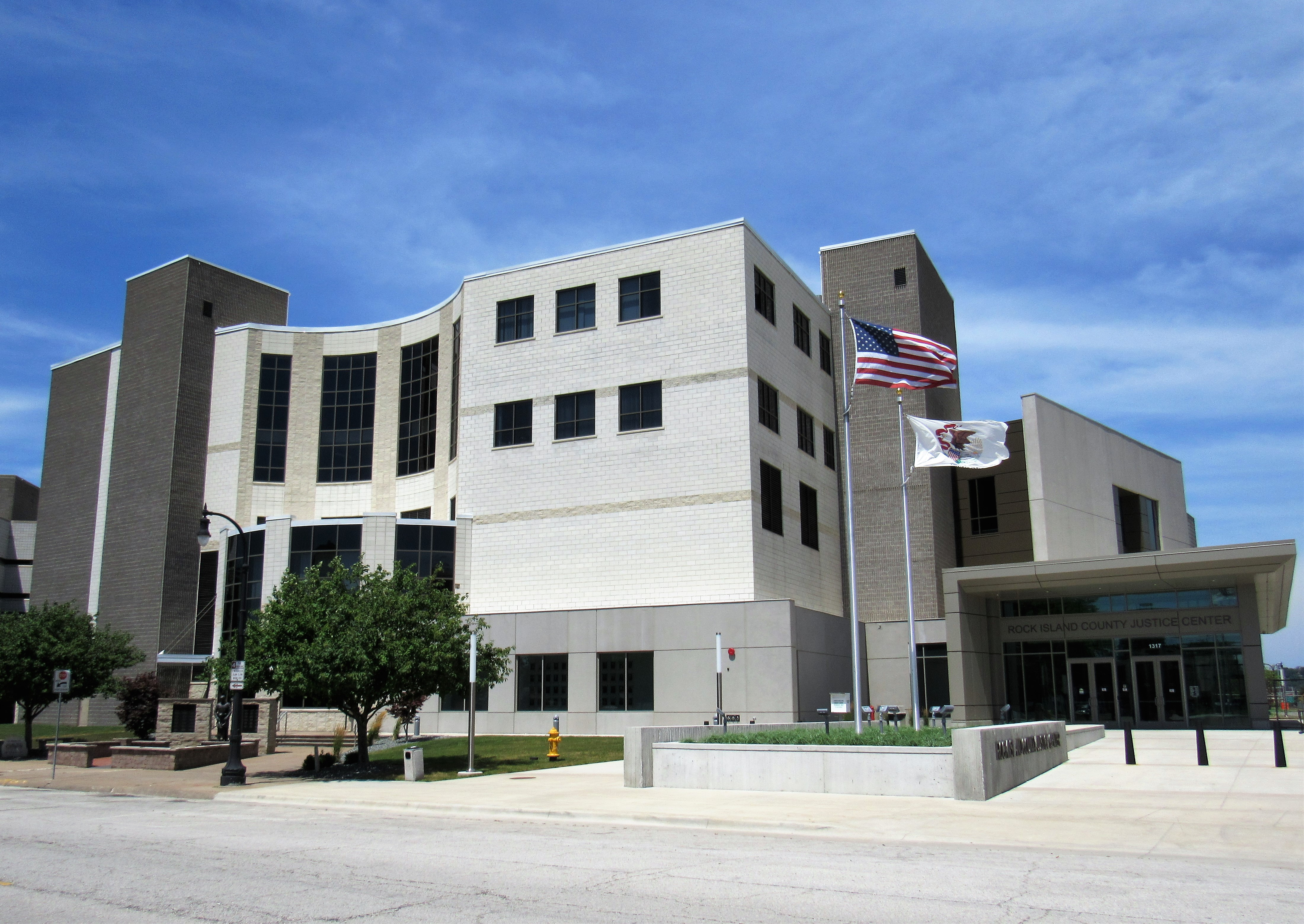 Rock Island County Justice Center in Rock Island, Illinois. It was built in two stages. The original five-story section was completed in 2001 and the three-story annex behind the original building was completed in 2018.